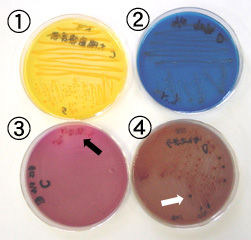 Differentiation of E. coli and Salmonella. 1 and 2: BTB lactose agar plates. 3 and 4:SSB agar plates. 1 and 3: E. coli. 2 and 4: S. Typhimurium.